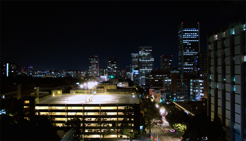 Portland State University, Night